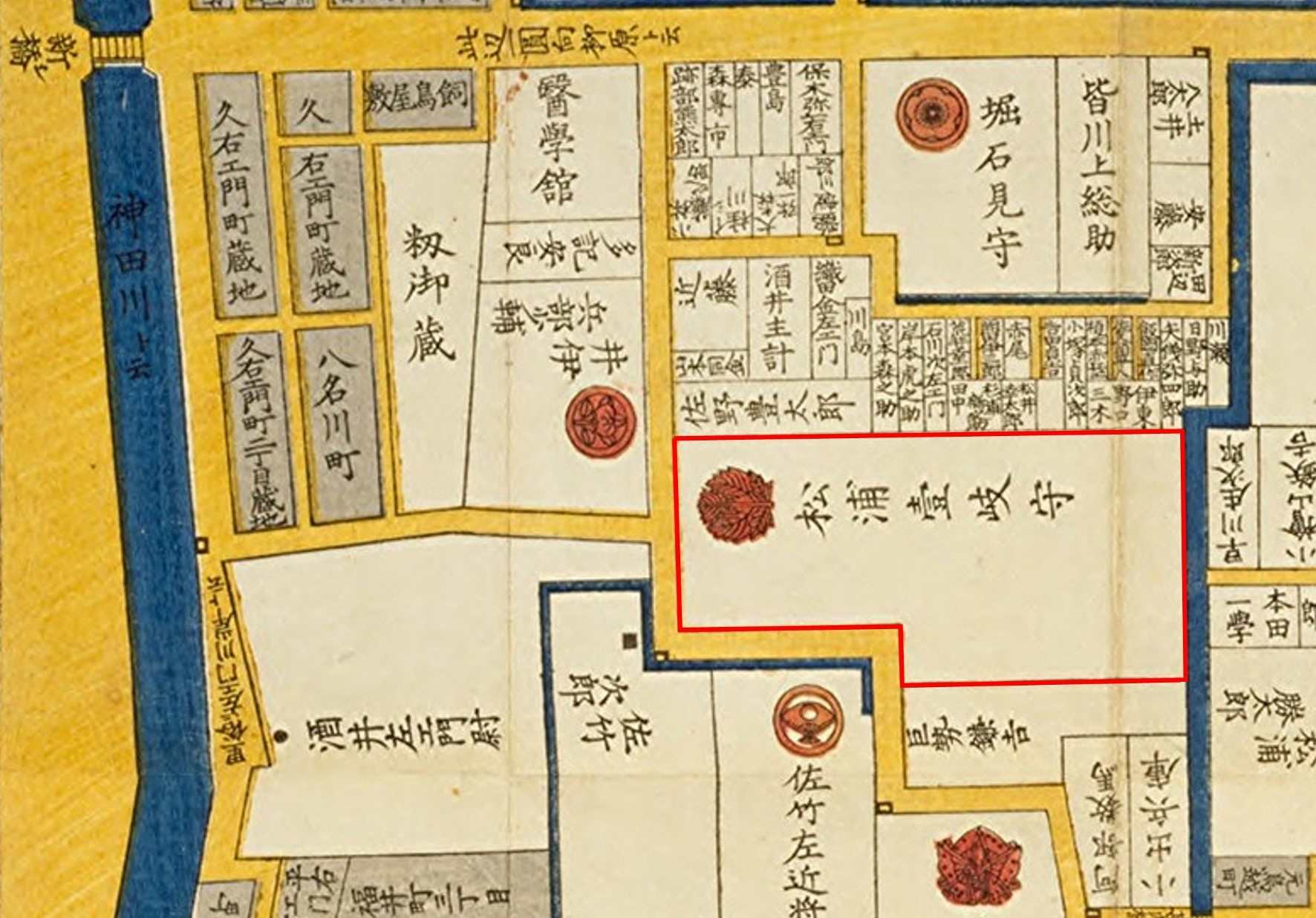 Residence of Matsuura at Edo